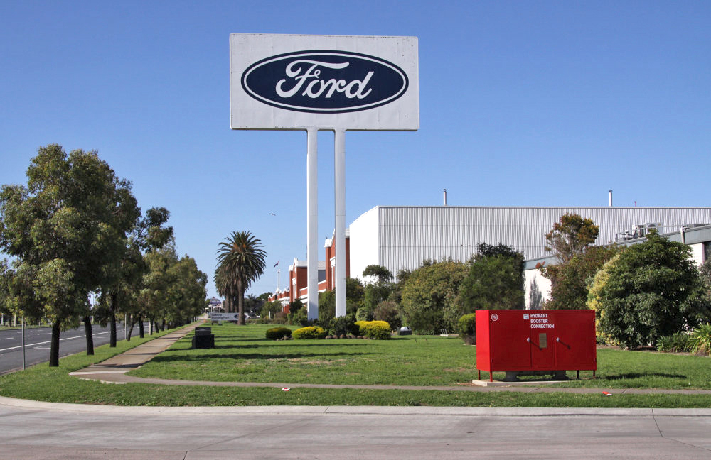 Ford Motor Company of Australia stamping plant at Norlane, Victoria (Geelong)